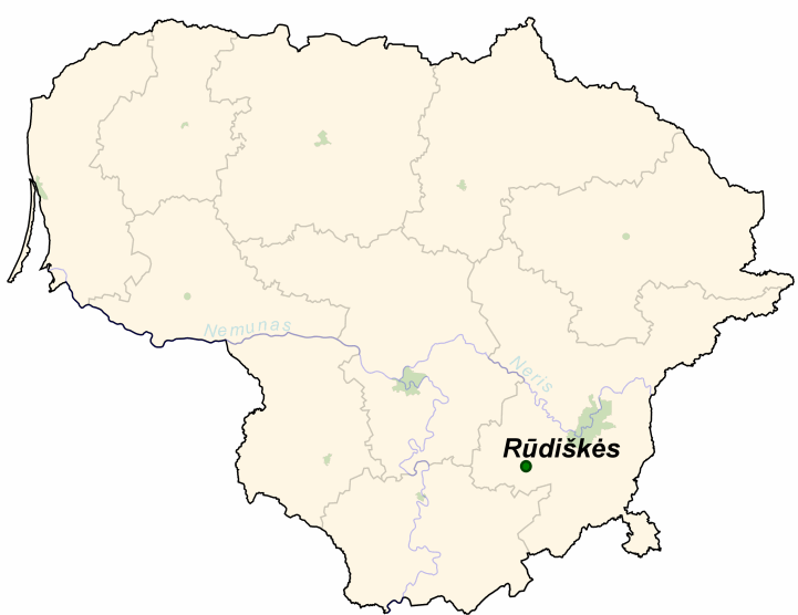 Rūdiškės on the map of Lithuania